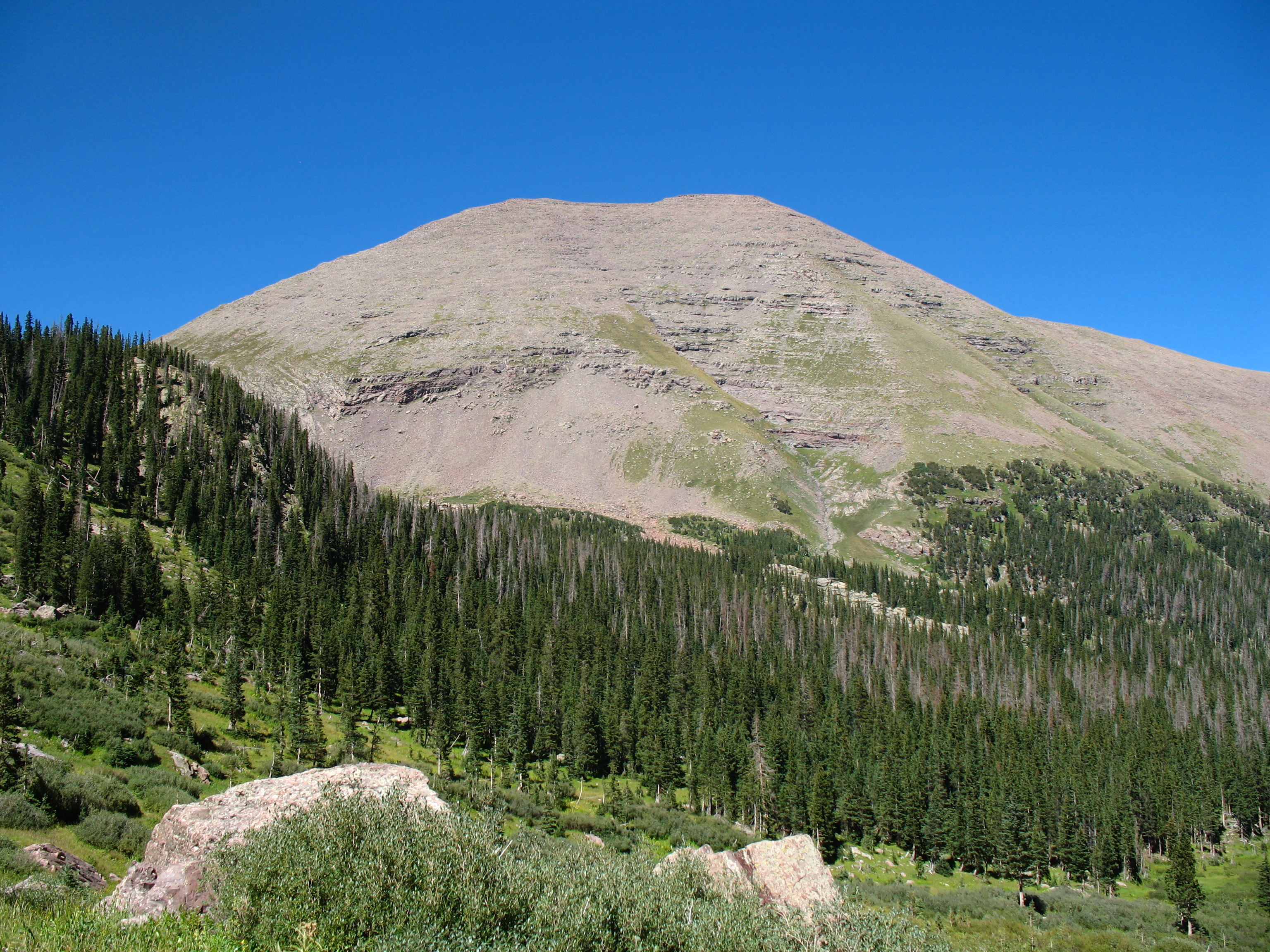 A view of Humboldt Peak in southern Colorado. (September 2008)